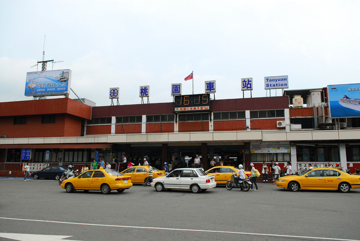 TRA Taoyuan Station.中文（台灣）: 臺灣鐵路管理局桃園車站。